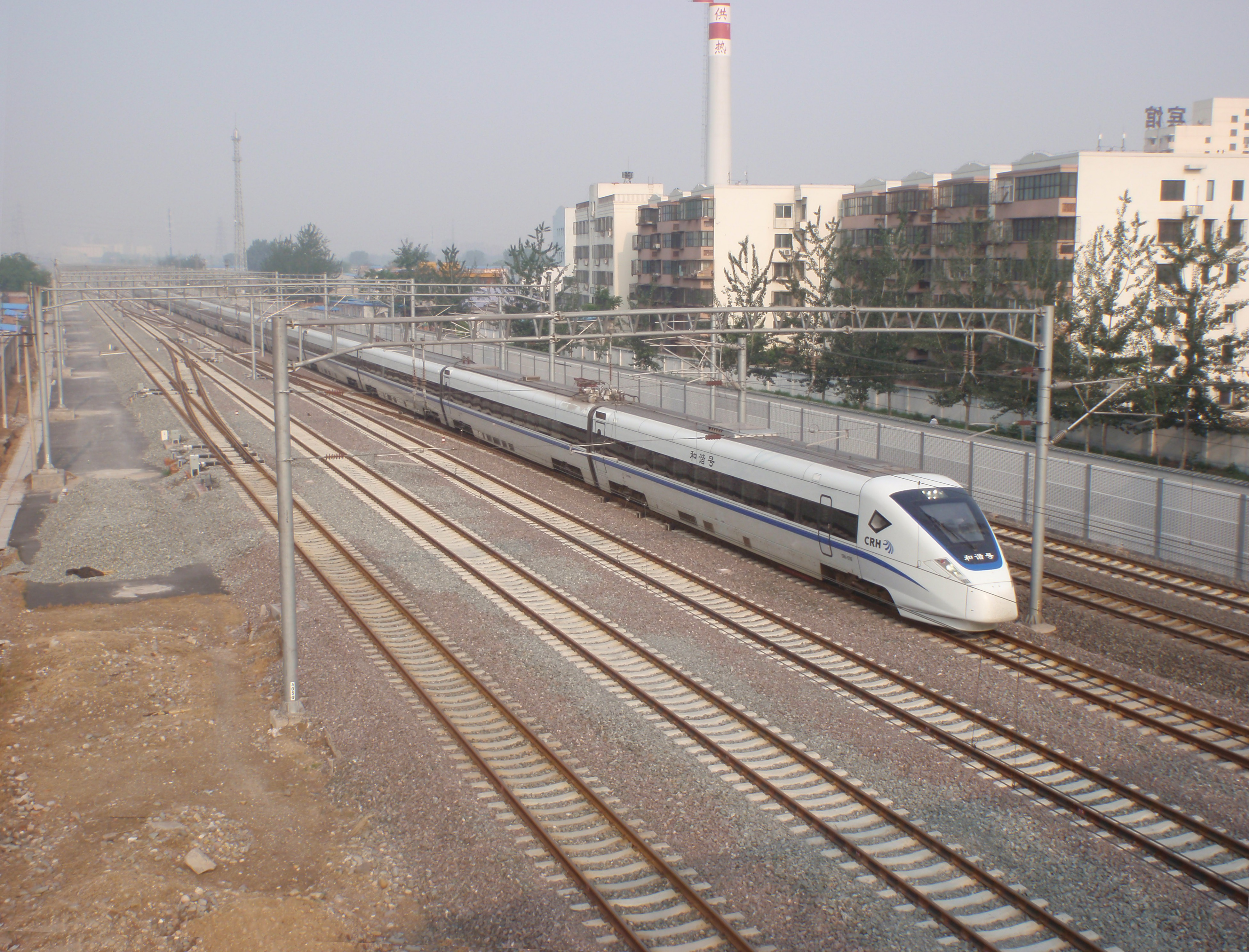 CRH1E sleeper EMU, Ministry of Railway, China.